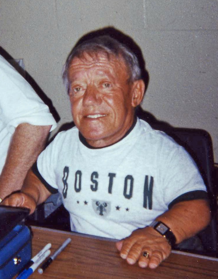 Kenneth George "Kenny" Baker, best known as the man inside the R2-D2